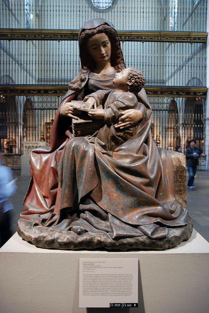 Attributed to Claus de Werve (Franco-Netherlandish, ca. 1380–1439, active in Burgundy, 1396–ca. 1439) Poligny Virgin, ca. 1420 French Limestone, polychromy, gilding; Overall: 53 3/8 x 41 1/8 x 27 in. (135.5 x 104.5 x 68.6 cm) Overall (Weight:): 1800lb. (816.5kg) The Metropolitan Museum of Art, New York, Rogers Fund, 1933 (33.23) View at the Metropolitan Museum of Art website Wikipedia Loves Art at the Metropolitan Museum of Art This photo of item # 33.23 at the Metropolitan Museum of Art was contributed under the team name "Random_Variables" as part of the Wikipedia Loves Art project in February 2009. Metropolitan Museum of Art The original photograph on Flickr was taken by philophilosopher—please add a comment to the original Flickr page whenever a use has been made on Wikipedia or another project. Project galleries on Flickr: this institution, this team